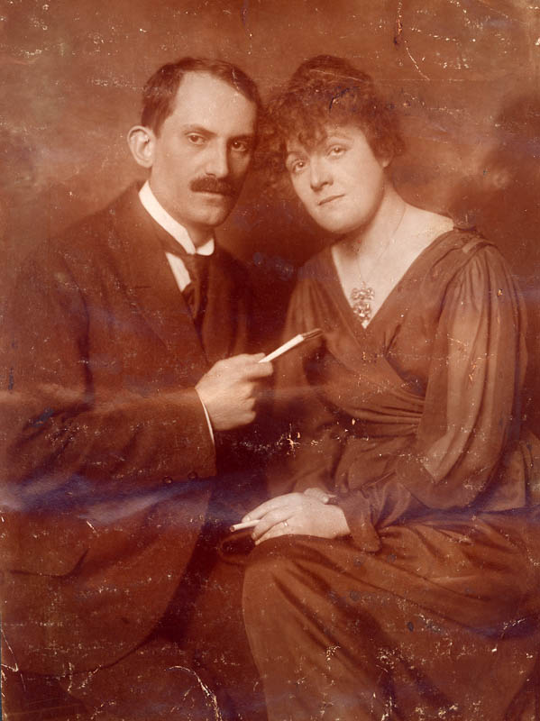 Wedding photo of Mihály Babits and Ilona Tanner (Sophie Török). Photograph by Aladár Székely National Széchényi Library LocationBudapestCoordinates47° 29′ 53.34″ N, 19° 02′ 14.4″ E Established1802Web page control : Q1063819 VIAF: 157919295 ISNI: 0000 0001 1781 8798 ULAN: 500306655 LCCN: n79076057 NLA: 35722893 WorldCat institution QS:P195,Q1063819